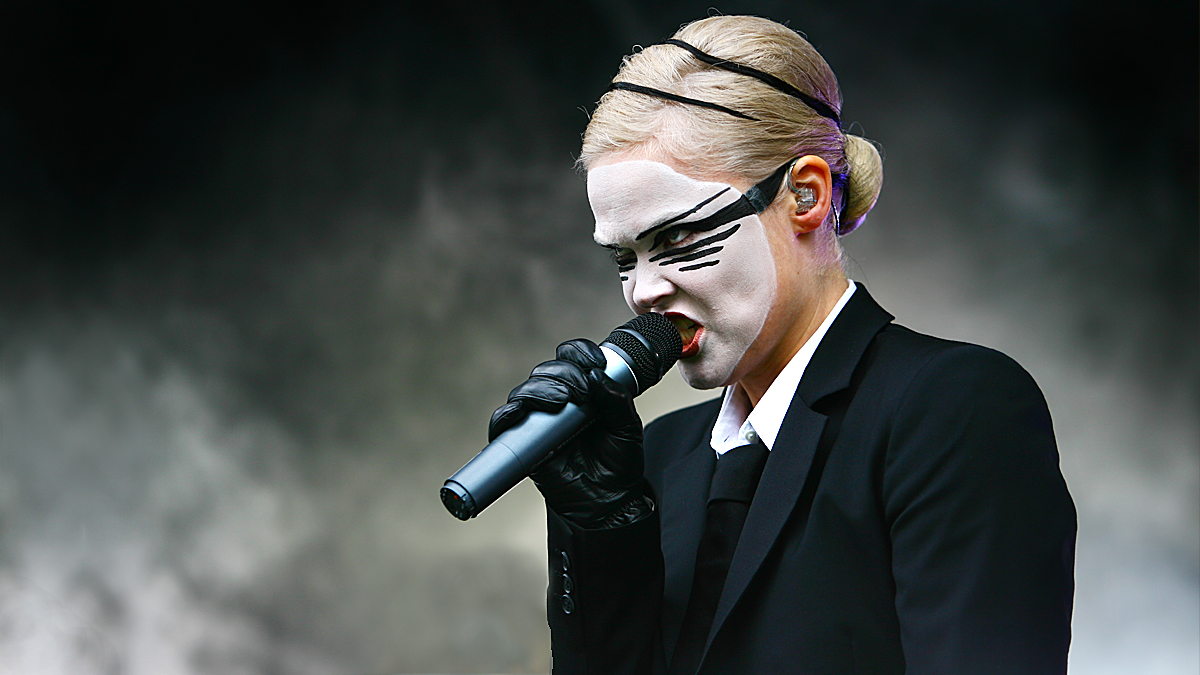 Anja Garbarek, performing at Øyafestivalen in 2007. Photography by Kim Erlandsen (NRK P3 on Flickr)